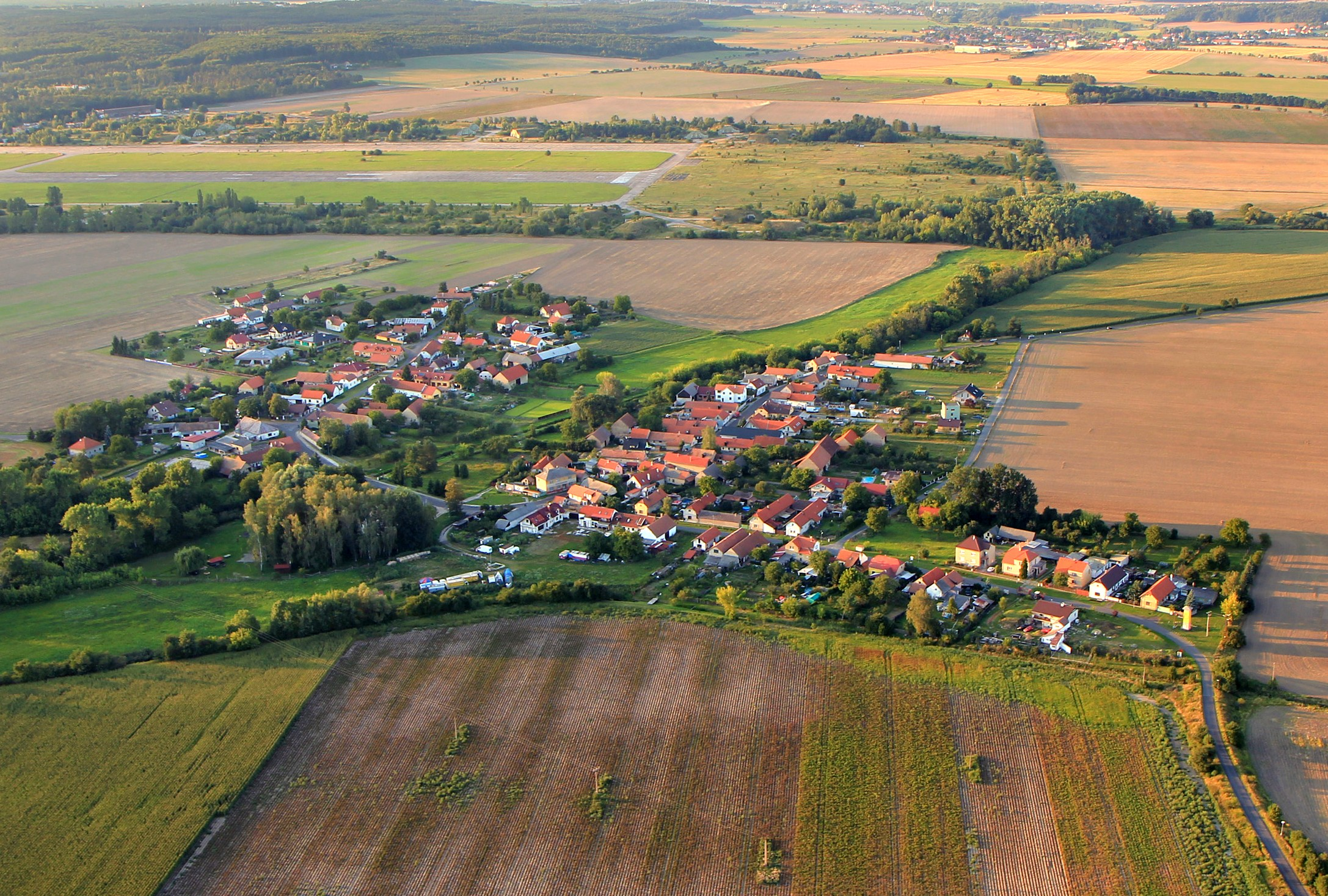 Aerial view of Zbožíčko, Czech Republic